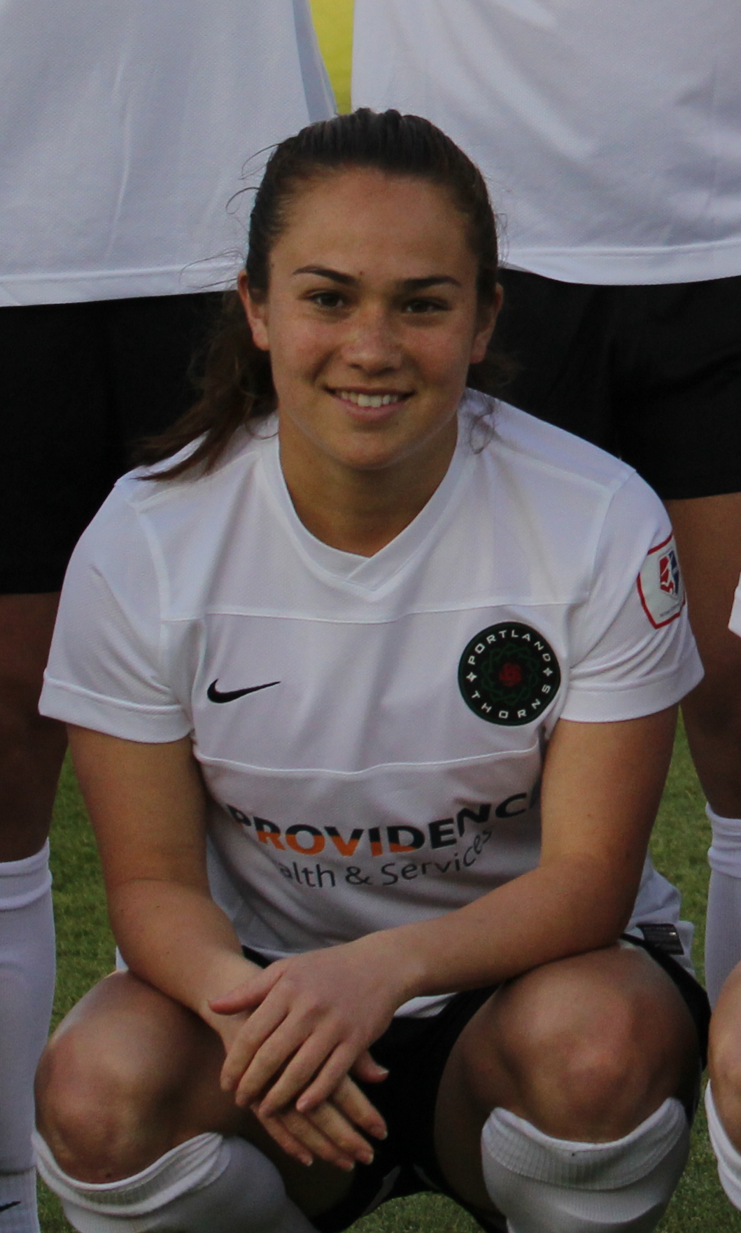 Meleana Shim (Portland Thorns FC)